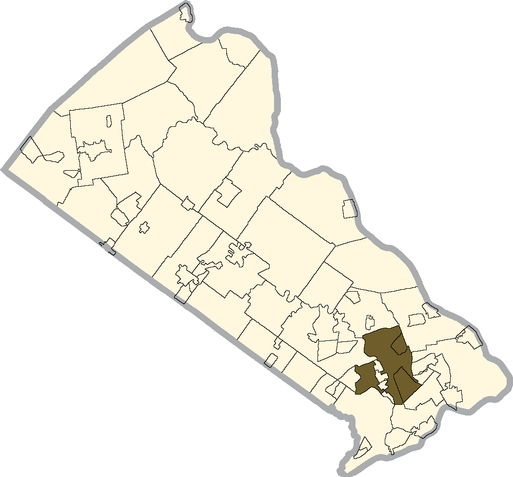 Middletown Township shaded on the map of Bucks county, PA.